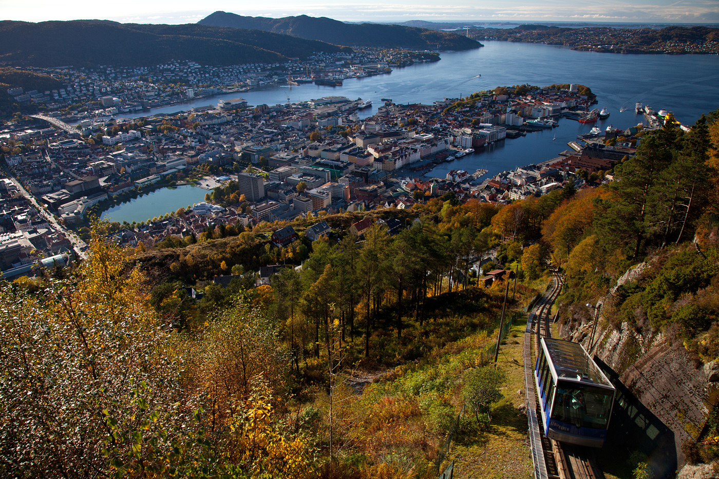 If you're looking for one of the best view over the city you should include a trip on famous Funicular. It will take you from the city center to the top of the Mount Fløyen. Then you'll be 320 meters above sea. Check out the magnificent views over the surroundings islands. Numerous paths offer easy walks through beautiful woodland terrain with lakes and mountains.